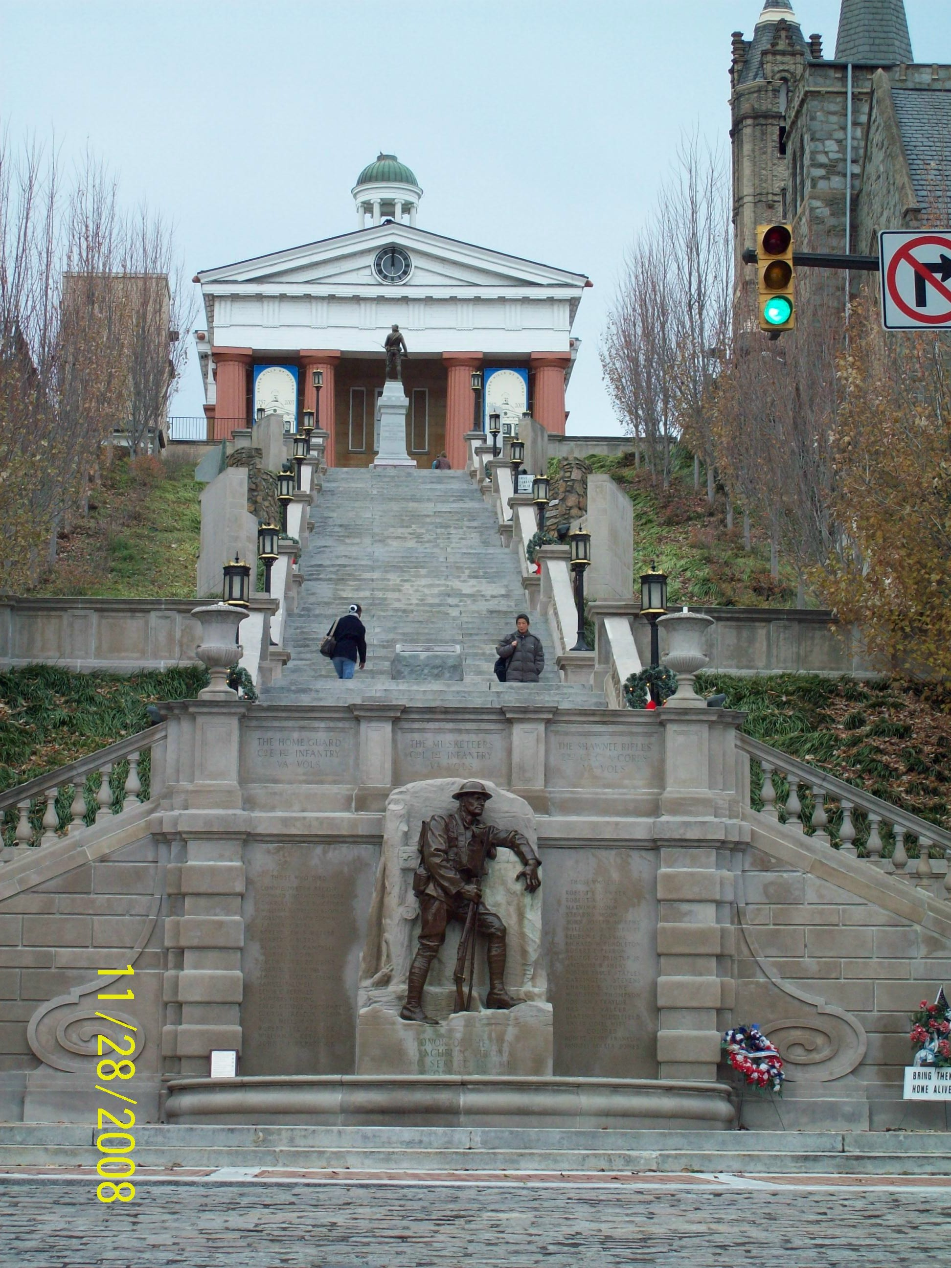 Monument Terrace and Courthouse, Lynchburg VA, November 2008